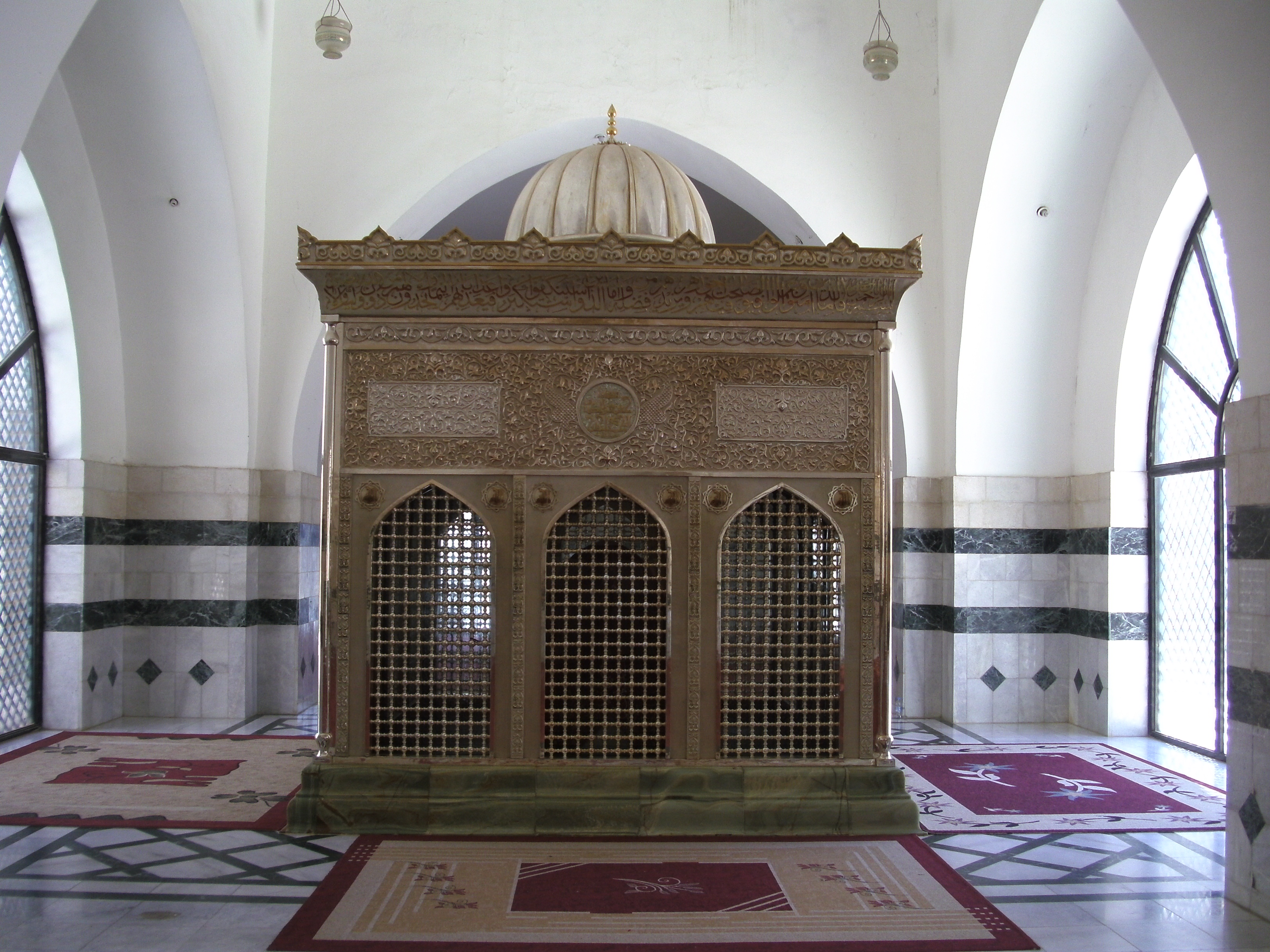 Ja’far’s tomb is located in Al-Mazar, near Kerak, Jordan. It is enclosed in an ornate shrine of gold and silver made by the Dawoodi Bohra’s 52nd Da’i, Mohammed Burhanuddin.